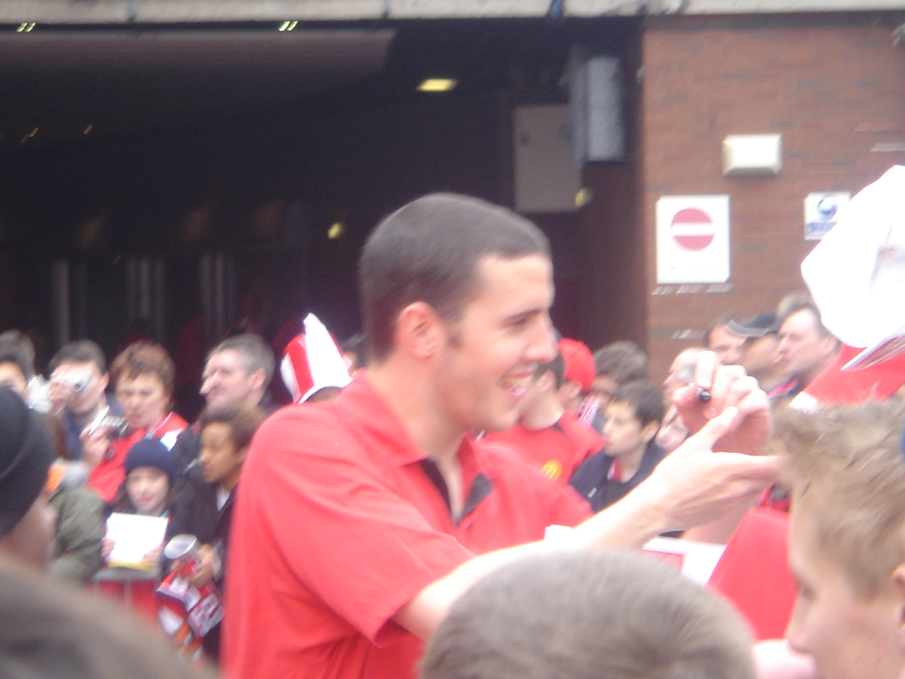 John O'Shea